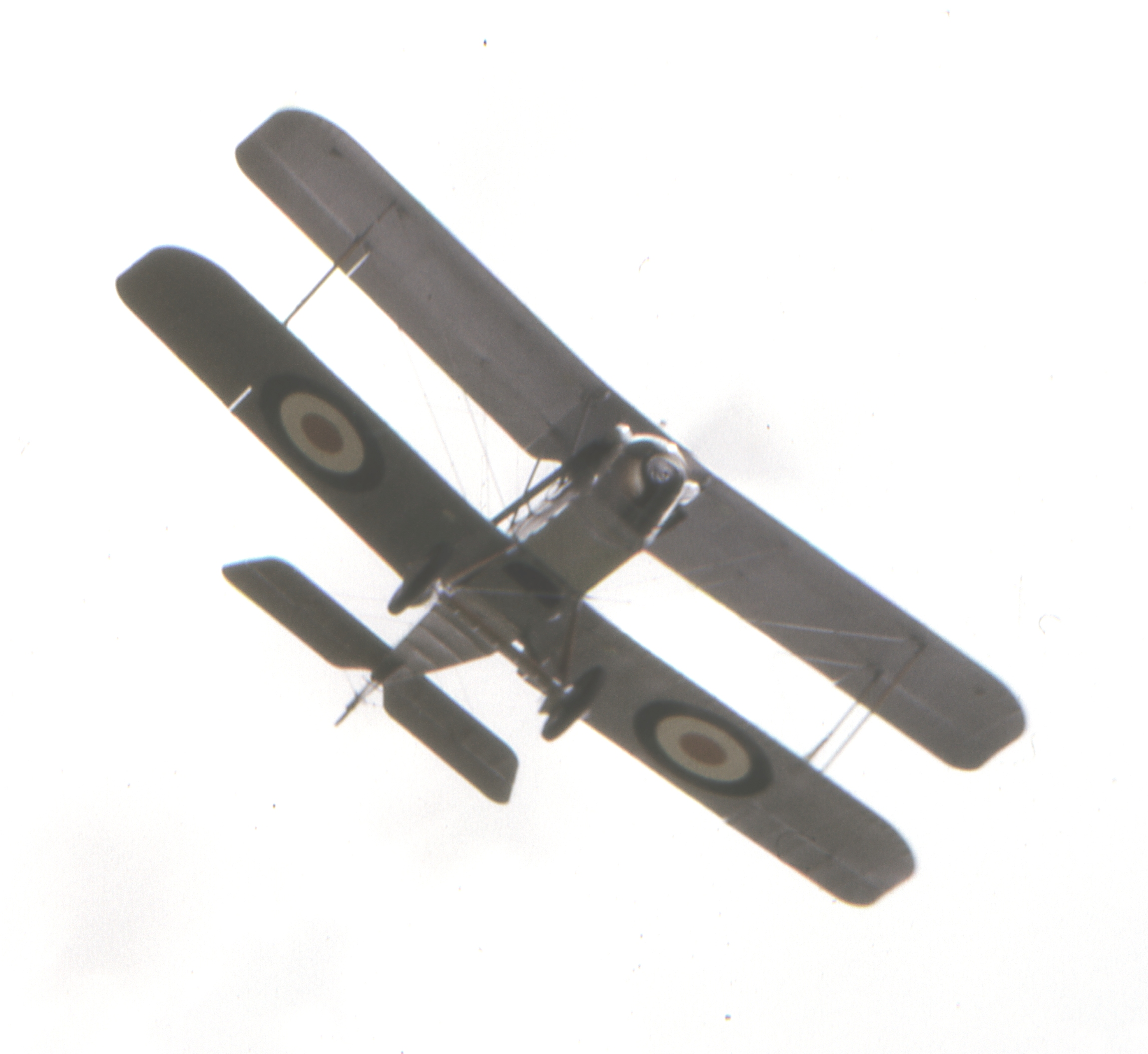 The Shuttleworth Trust's SE5a G-EBIA, silver painted as D7000 (it was originally F904) at the SBAC show, Farnborough 1962.